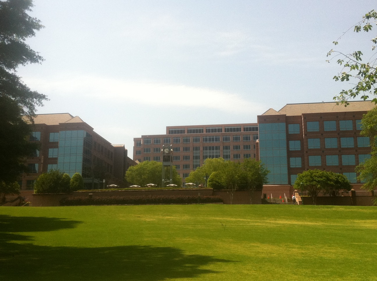 AT&T Mobility HQ, Lenox Park area, Brookhaven, DeKalb Co., Georgia.